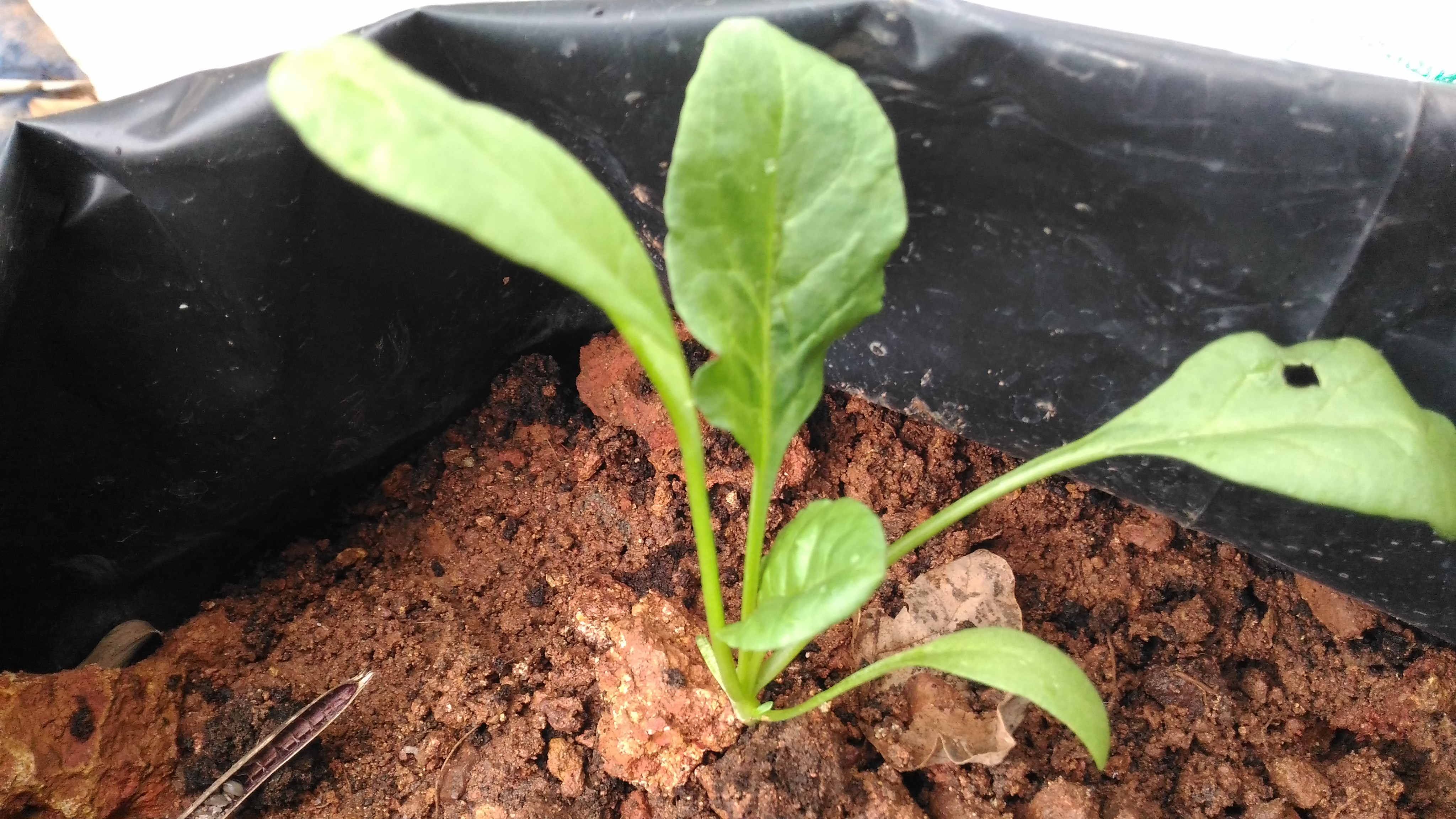 palak grown in growbag